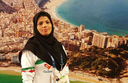 Zahra Danaei at the Rio 2016 Summer Paralumpics